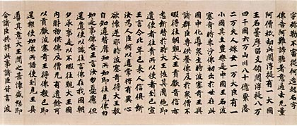 Segment of the Sutra of the Wise and Foolish (賢愚経残巻, kengukyōzankan)